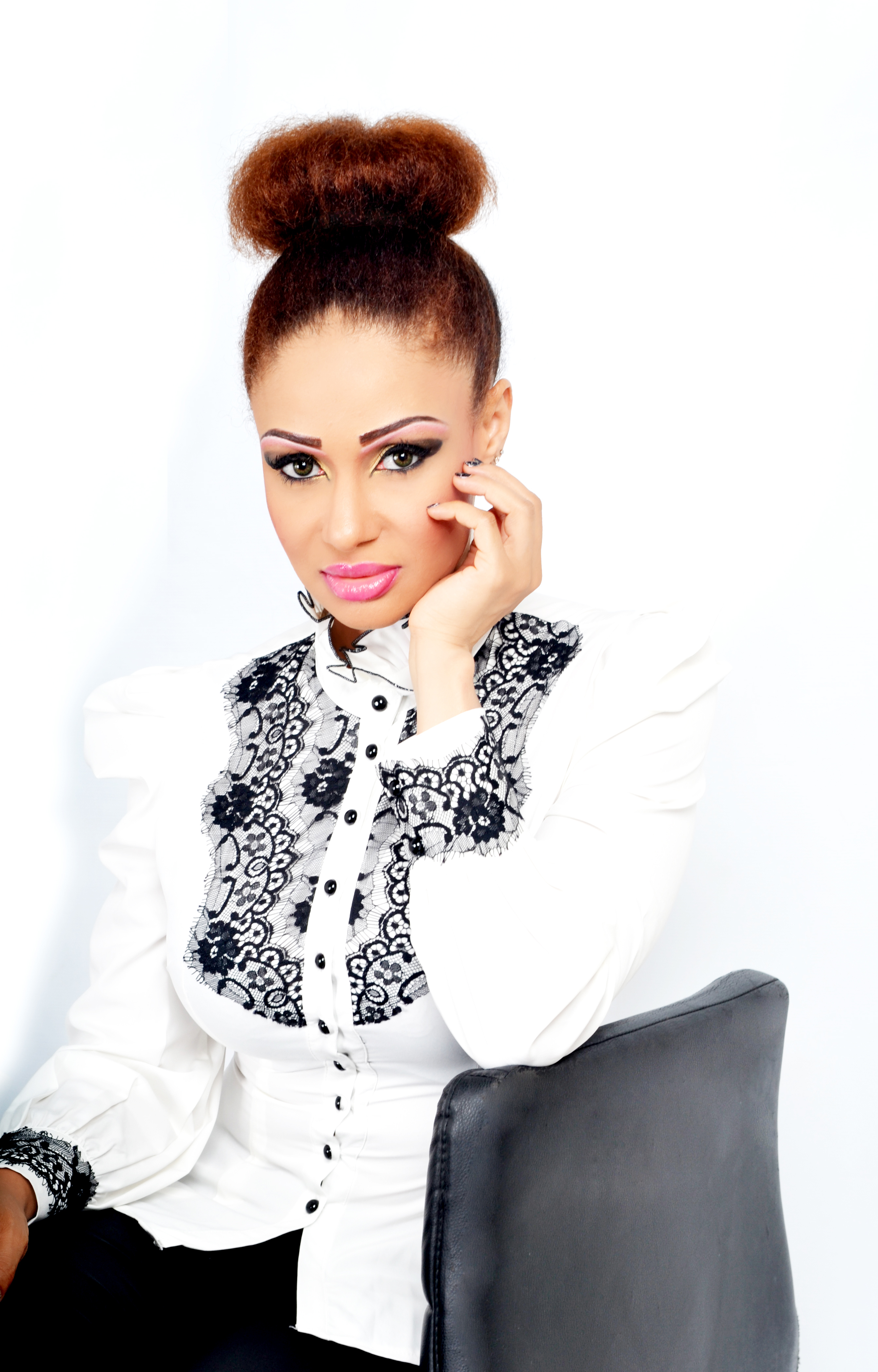 CEO, Body Enhancement Ltd. Pioneered cosmetic surgery in Nigeria, West Africa.